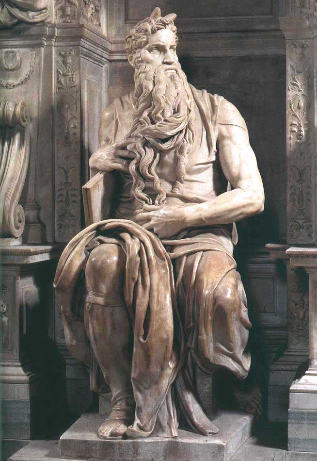 Michelangelo Buonarroti's Moses